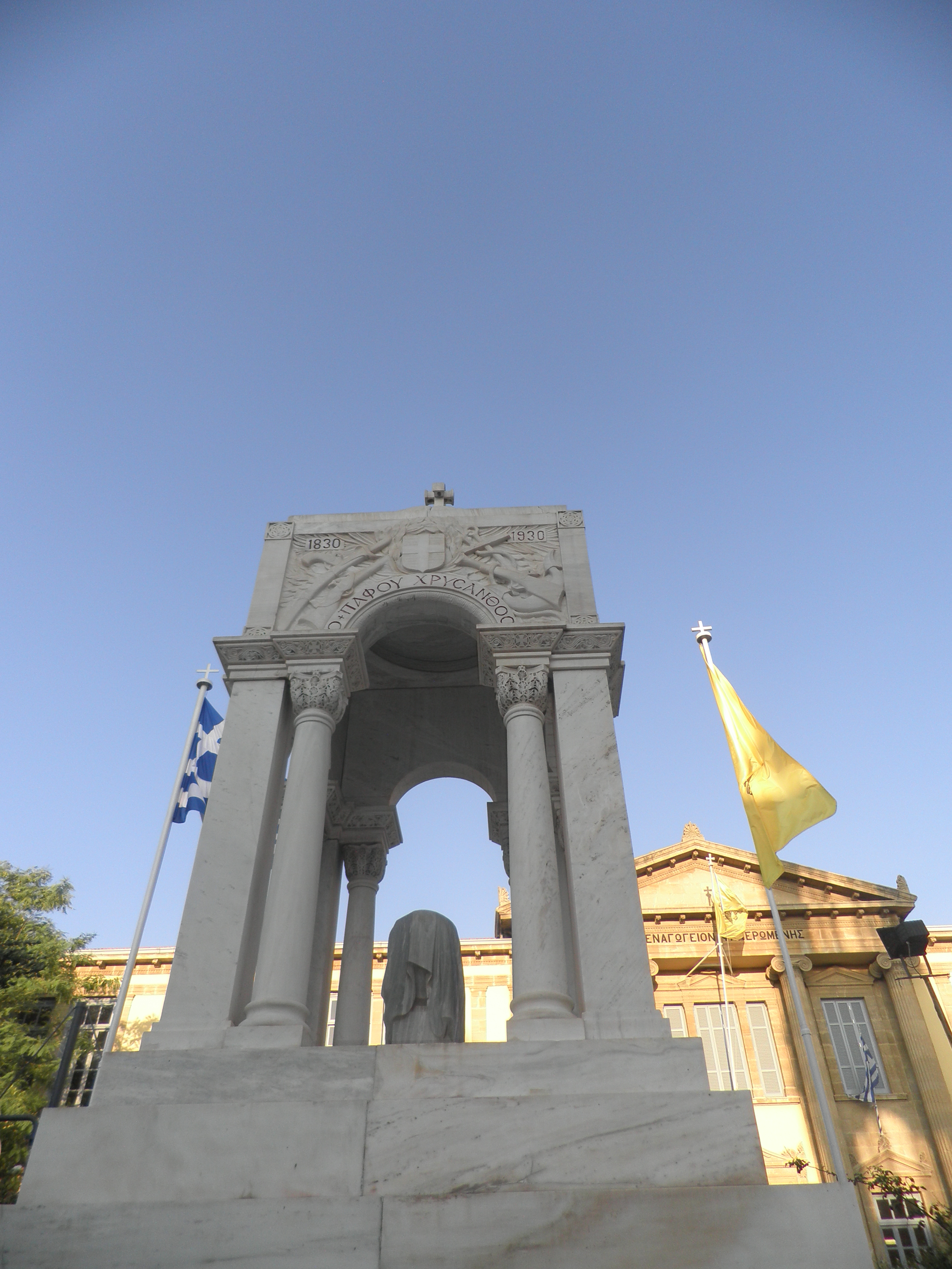 Faneromeni Square Nicosia